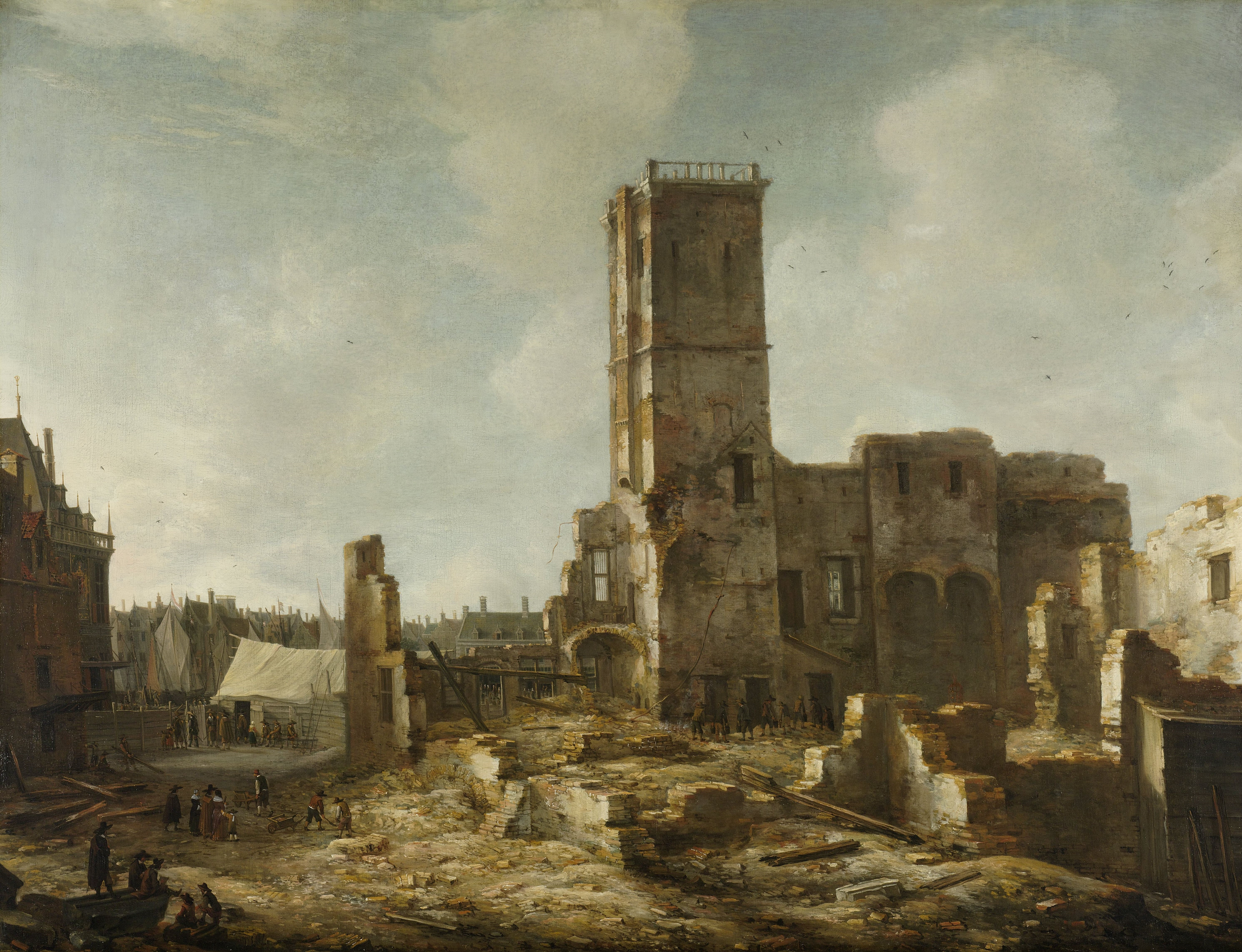 The ruins of the old Town Hall of Amsterdam after the fire of 7 July 1652, seen from the Nieuwezijds Voorburgwal towards Dam Square.